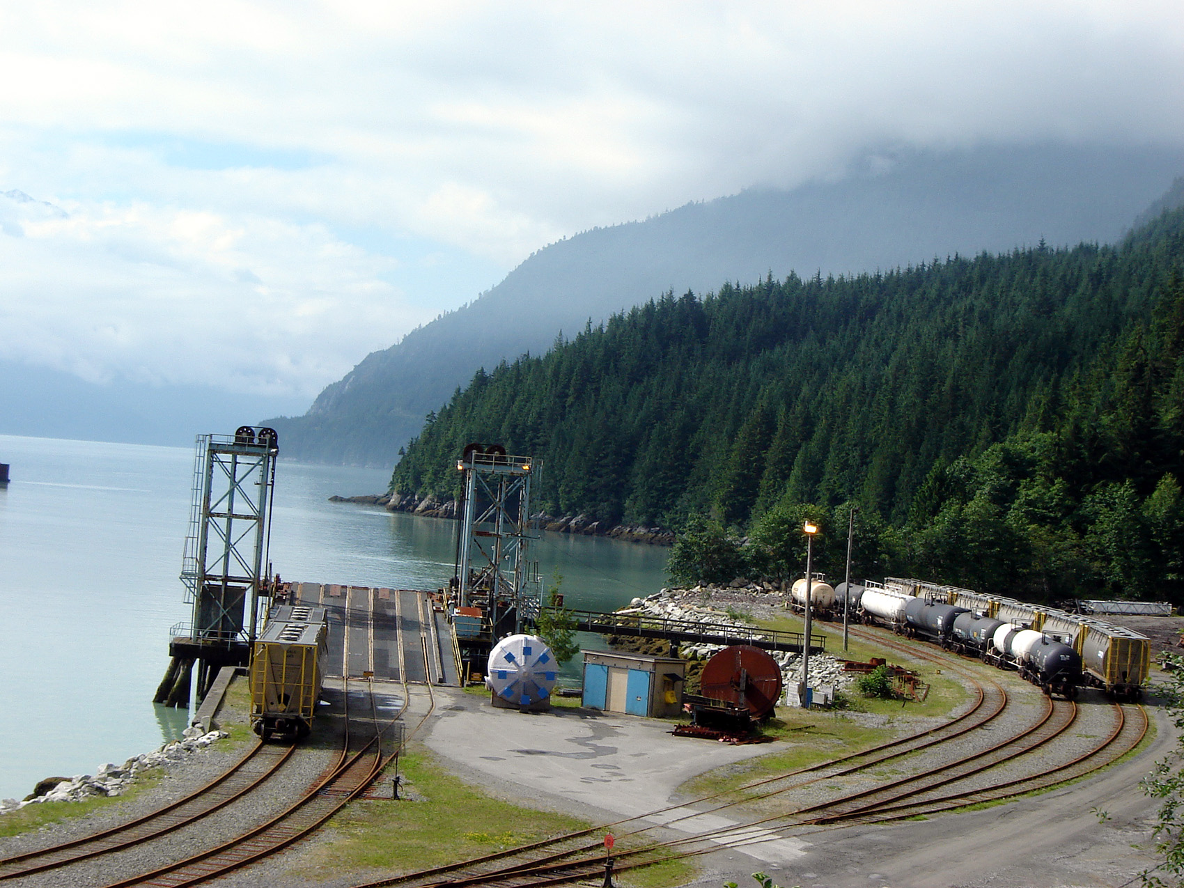 Photo by Keith Freeman Attribution req'd as per license Taken July, 2005